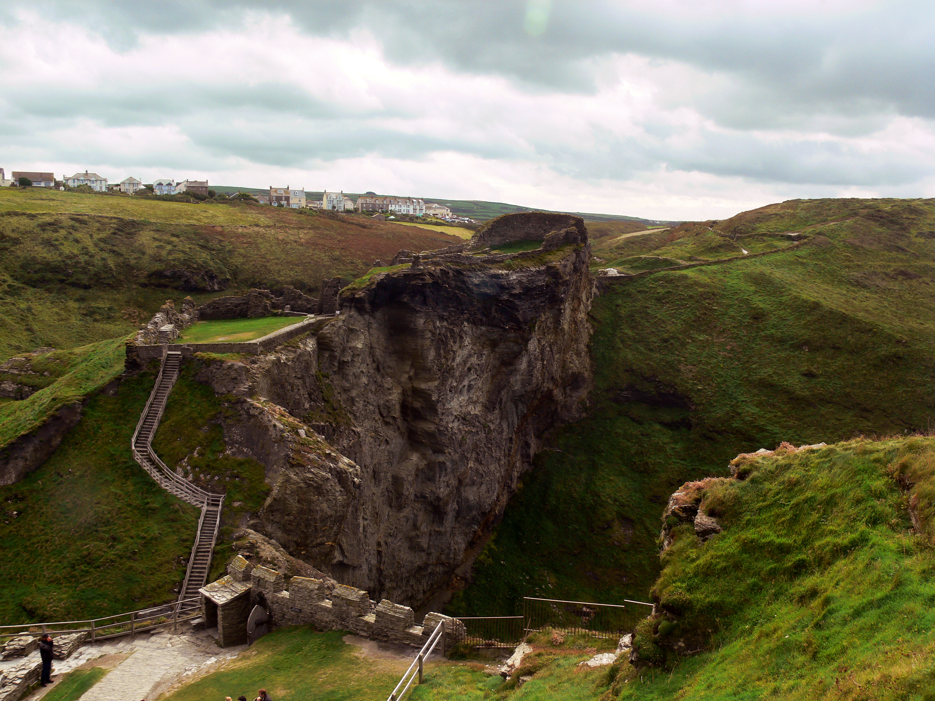 The ruins of the upper mainland courtyards of Tintagel Castle, Cornwall.